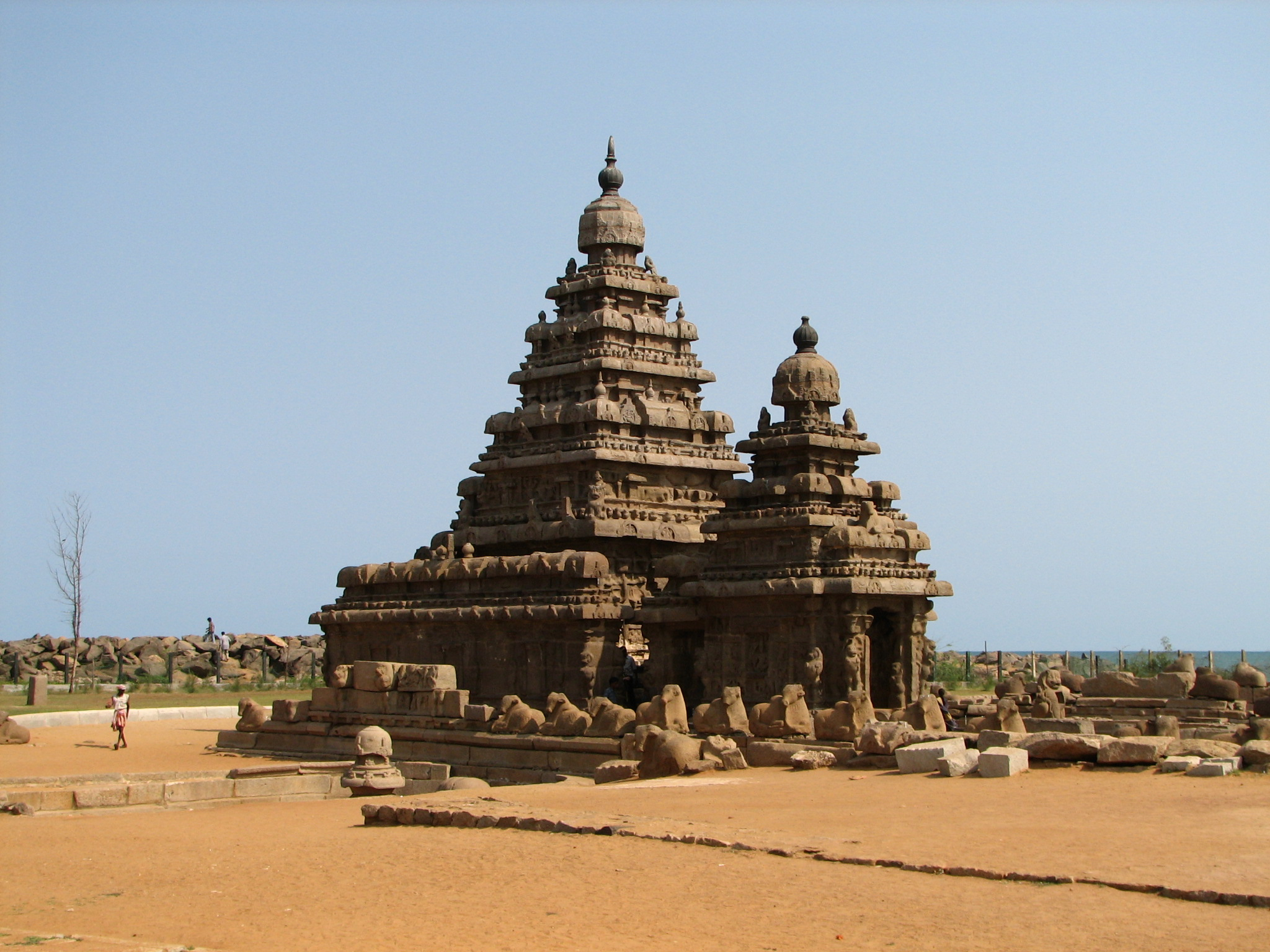 Mamallapuram Shore Temple - 2007.